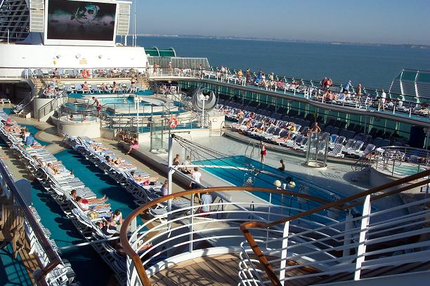 Shot of the sea princess main deck. SGGH 21:07, 12 September 2006 (UTC)